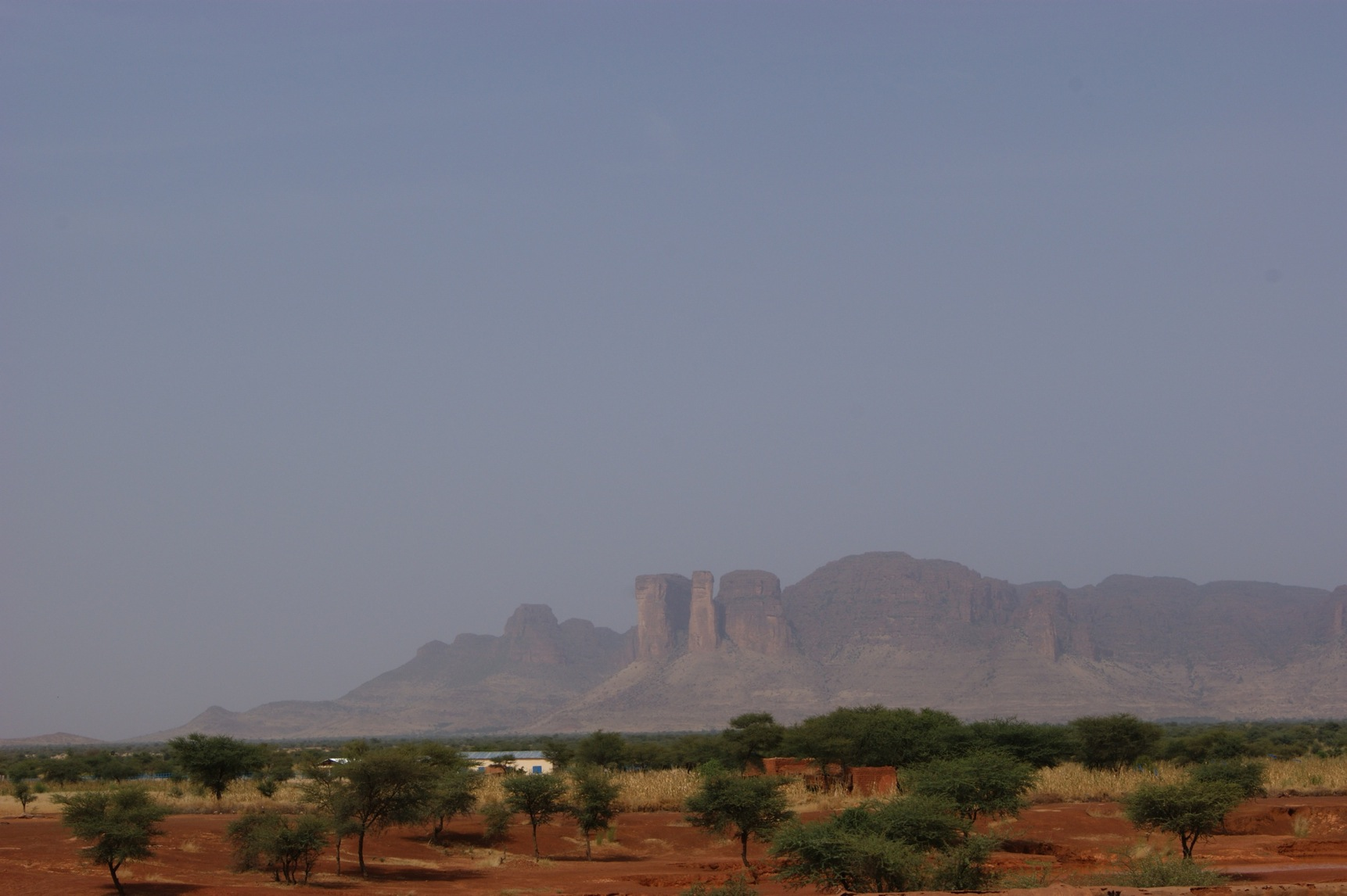 The road to Timbuktu in the Sahel, Mali. Acacia trees in the Sahel sub-Saharan savanna ecoregion. Sahel Acacia species include: Acacia laeta, Acacia nilotica, Acacia seyal, and Acacia tortilis.